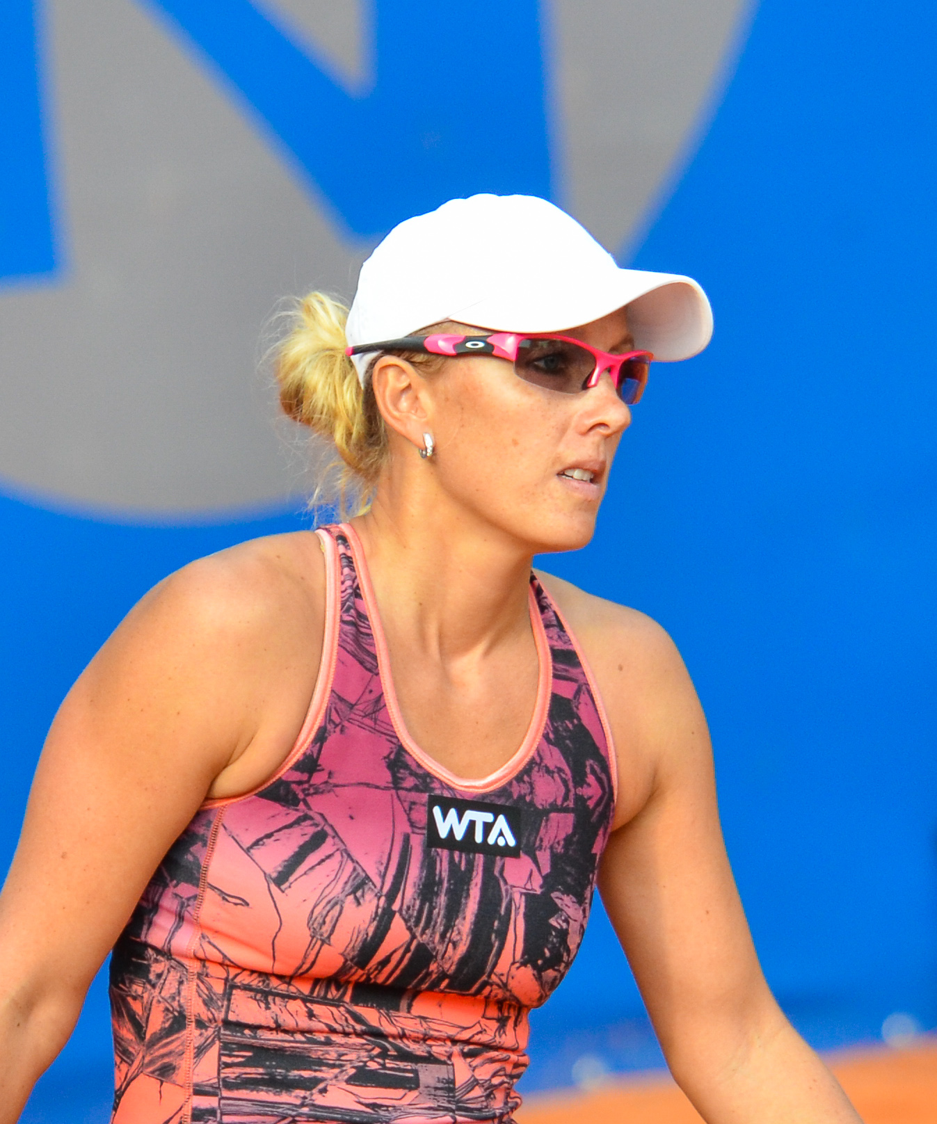 Anastasia Rodionova during her 2nd round match against Eugenie Bouchard at the 2014 Nürnberger Versicherungscup on May 20, 2014